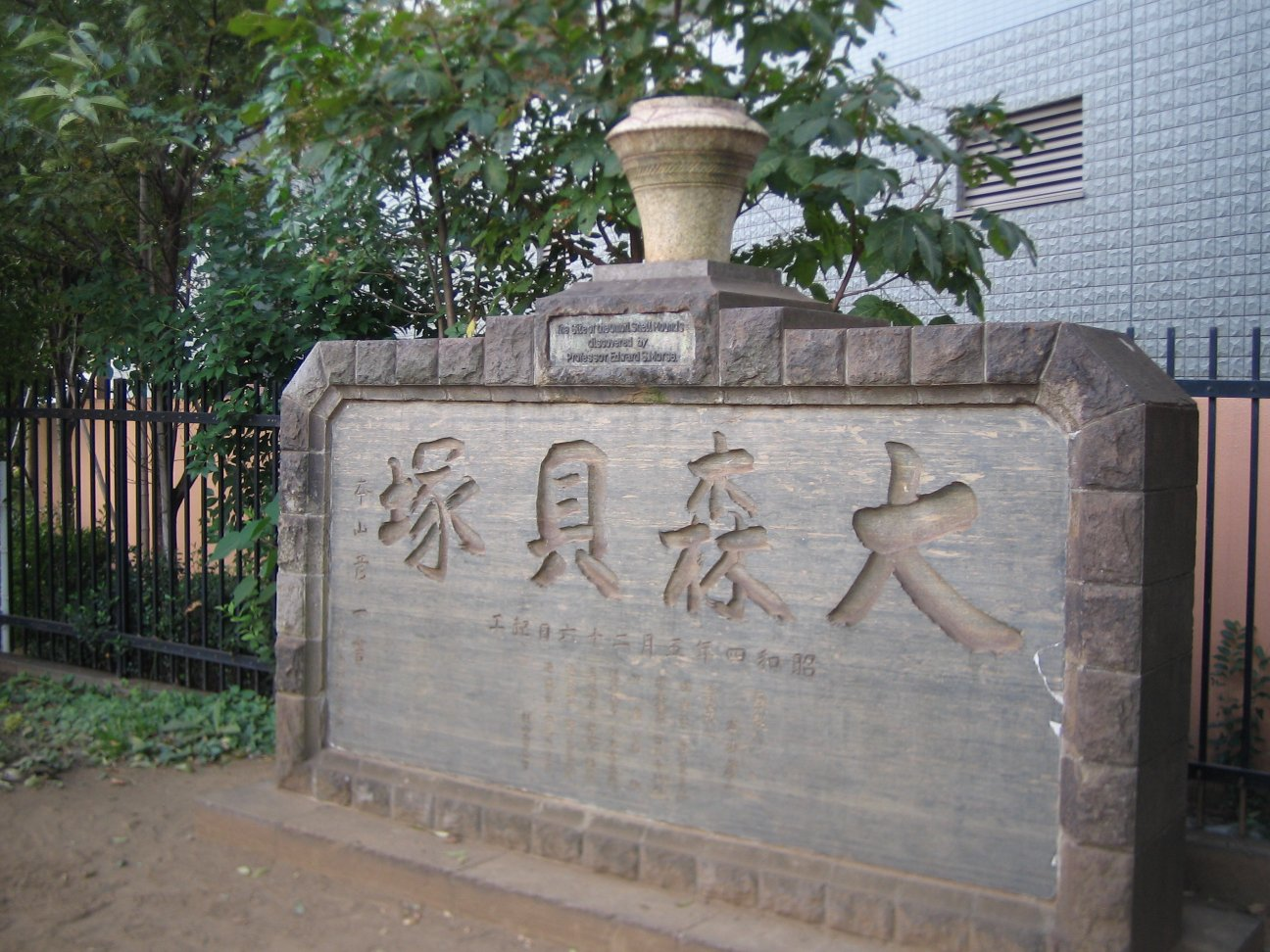 大森貝塚碑。The Monument of Shell mounds of Omori, Tokyo, Japan.